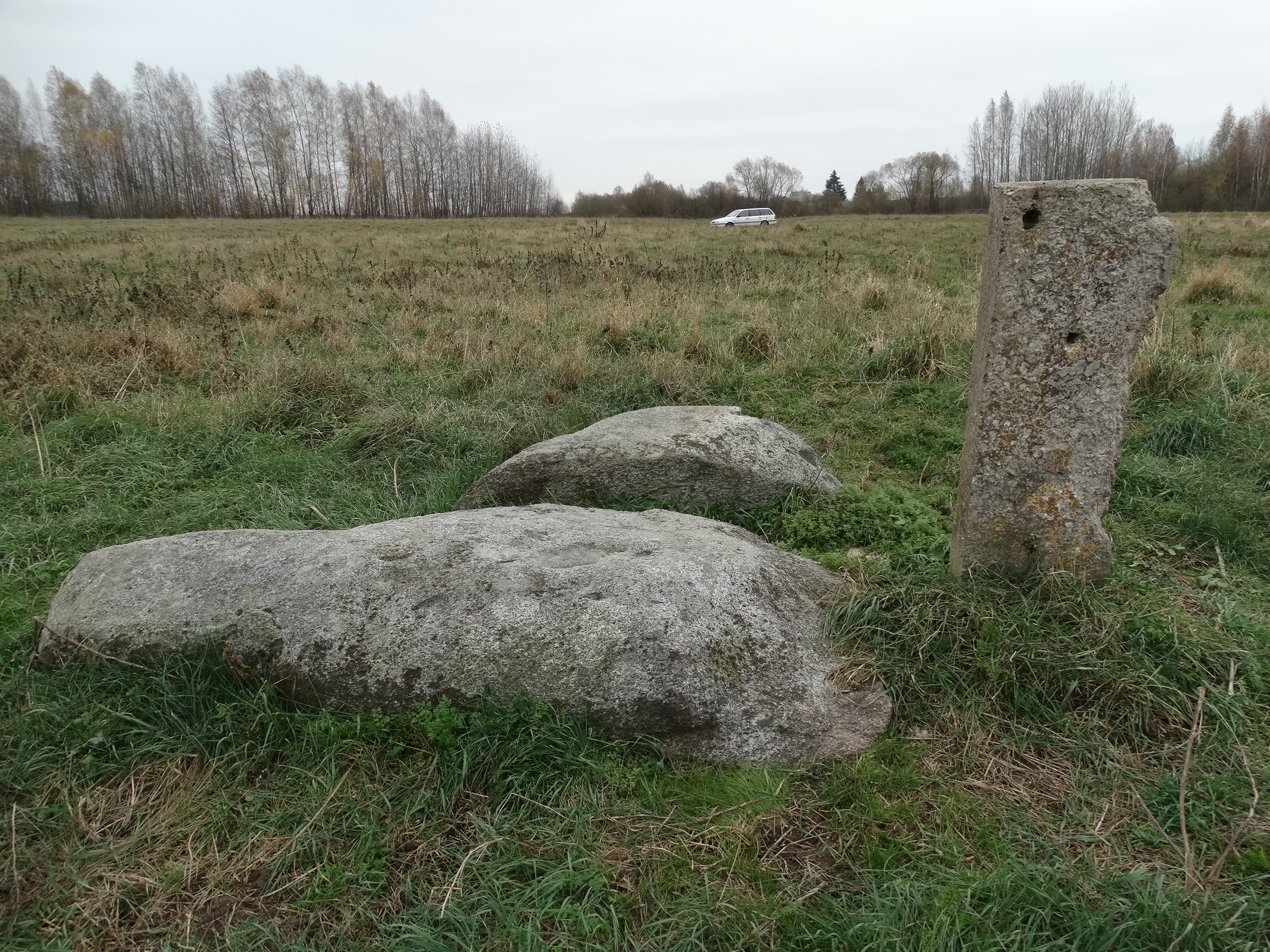 Mythological stone in Laukagalis, Kaišiadorys district, Lithuania